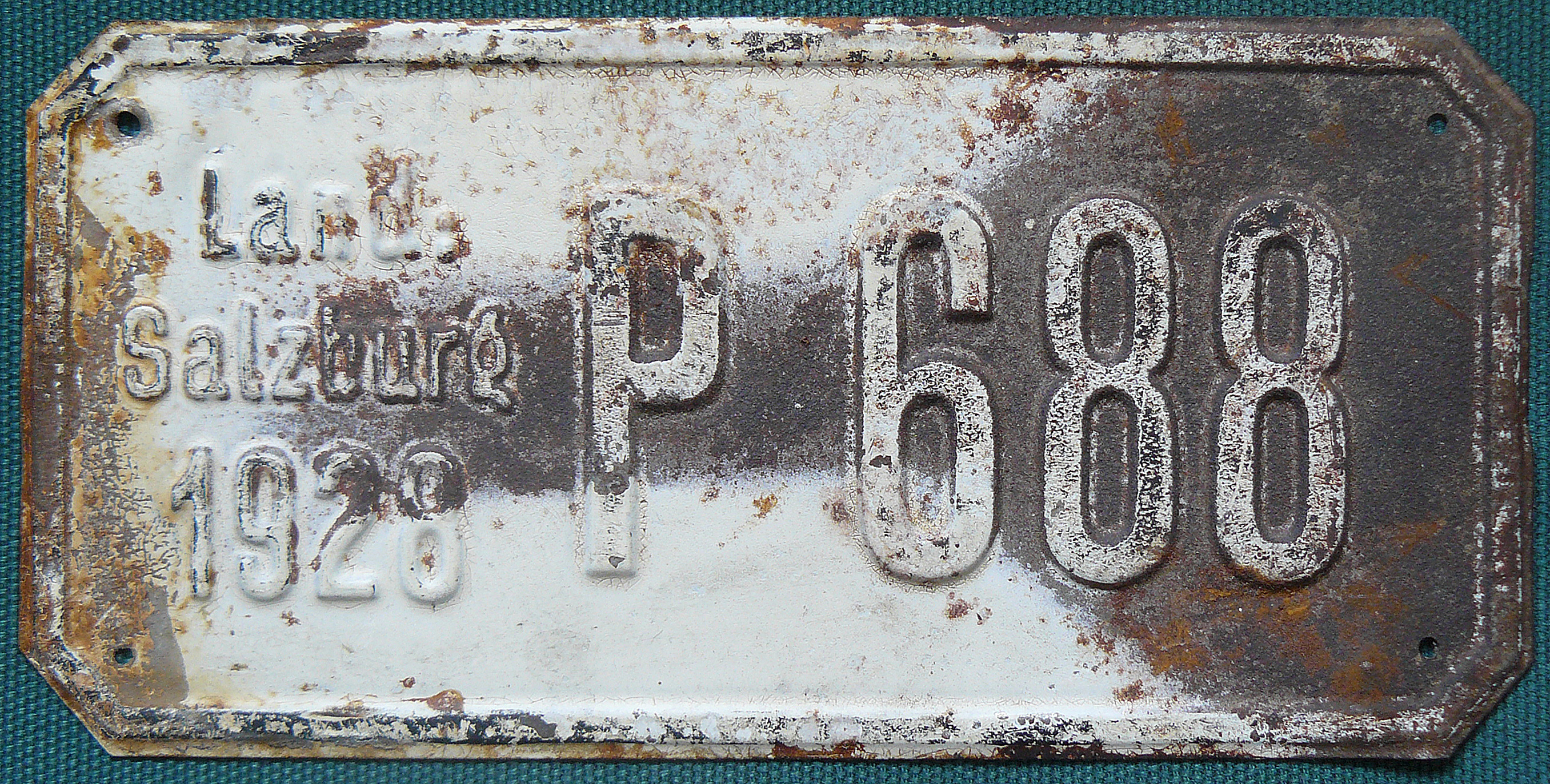 License plate of Austria 1928